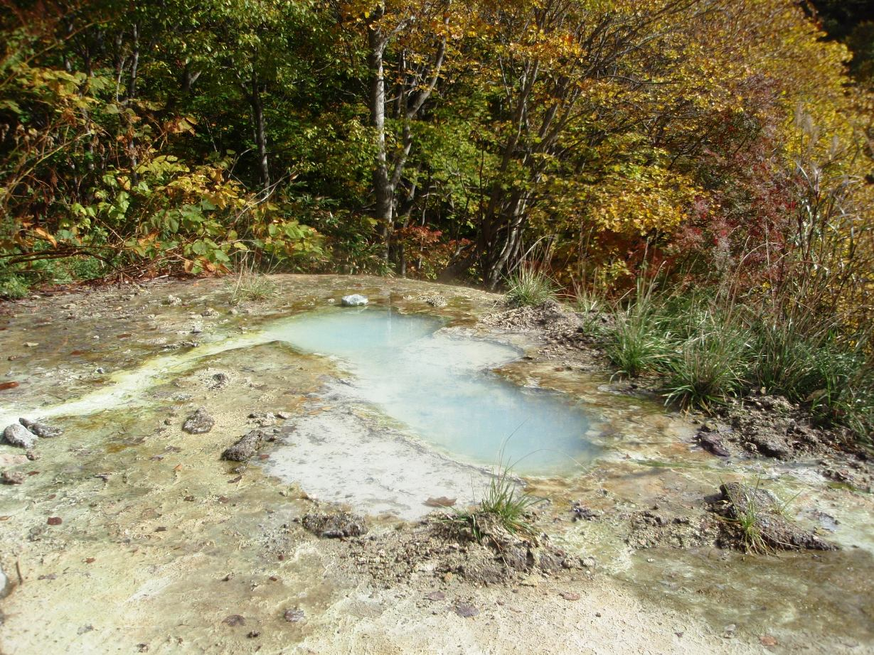 Kinkatou in Shimamaki, Hokkaido Japan.